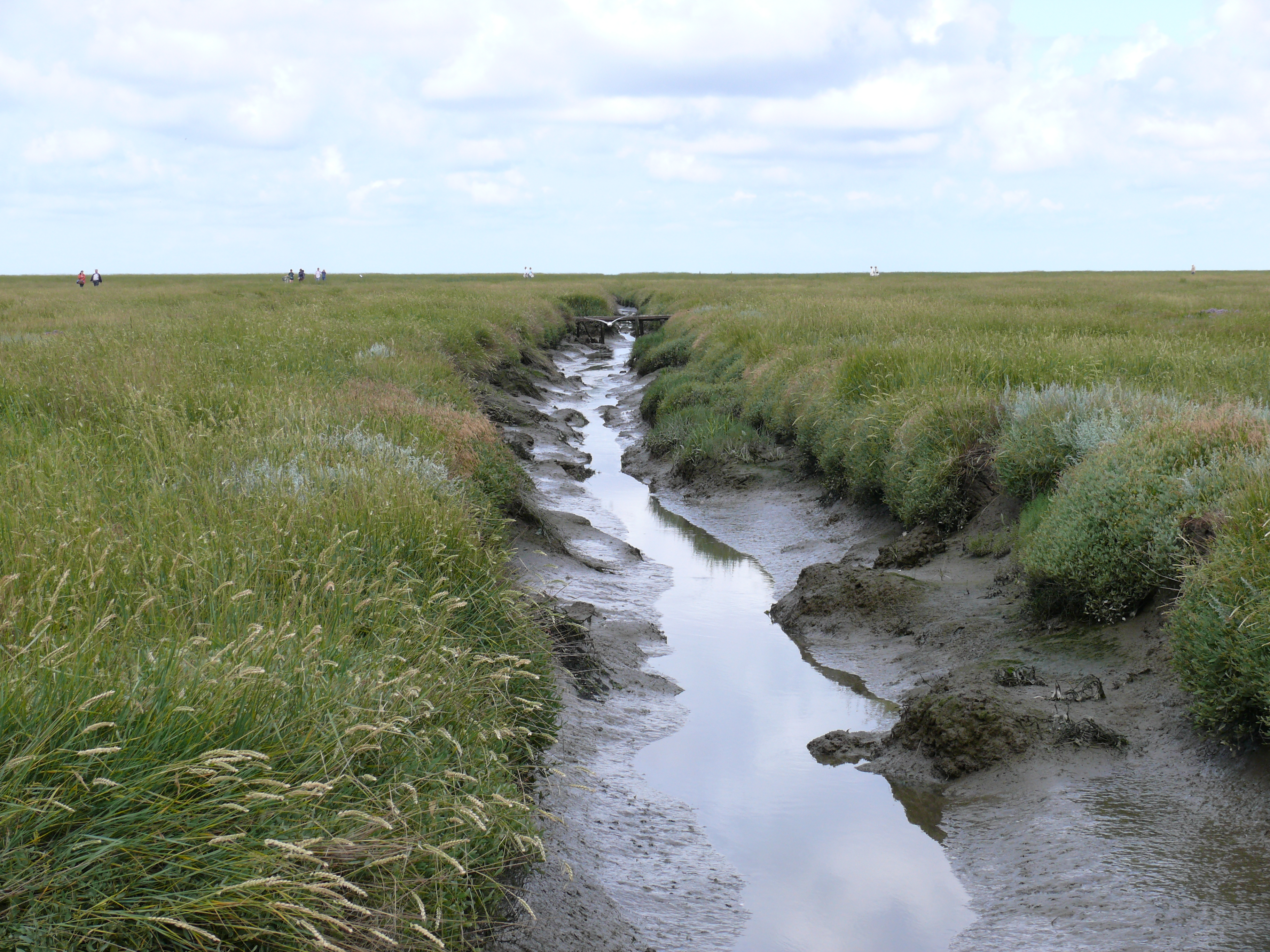 Salt marsh in Westerheversand, Schleswig-Holstein, Germany